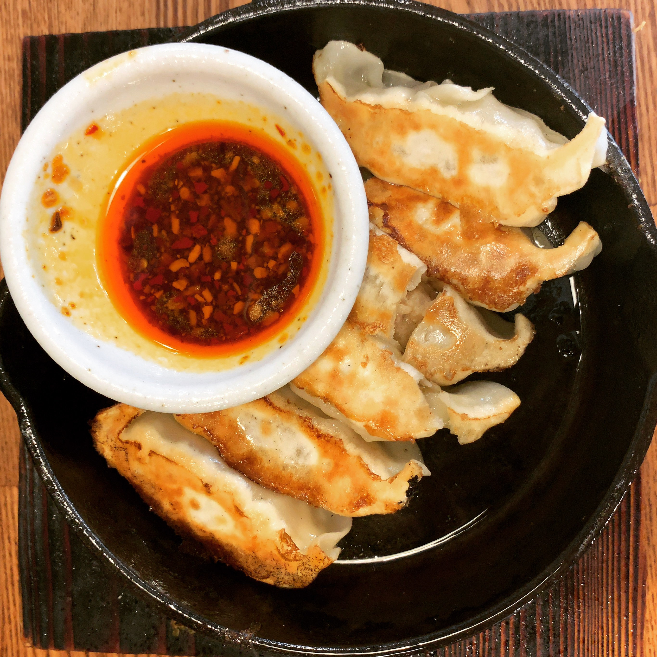 Japanese food by Naoki Nakashima